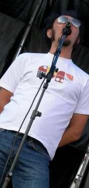 J, frontman of Grupo de Expertos Solynieve, at Sonorama 2008 festival.